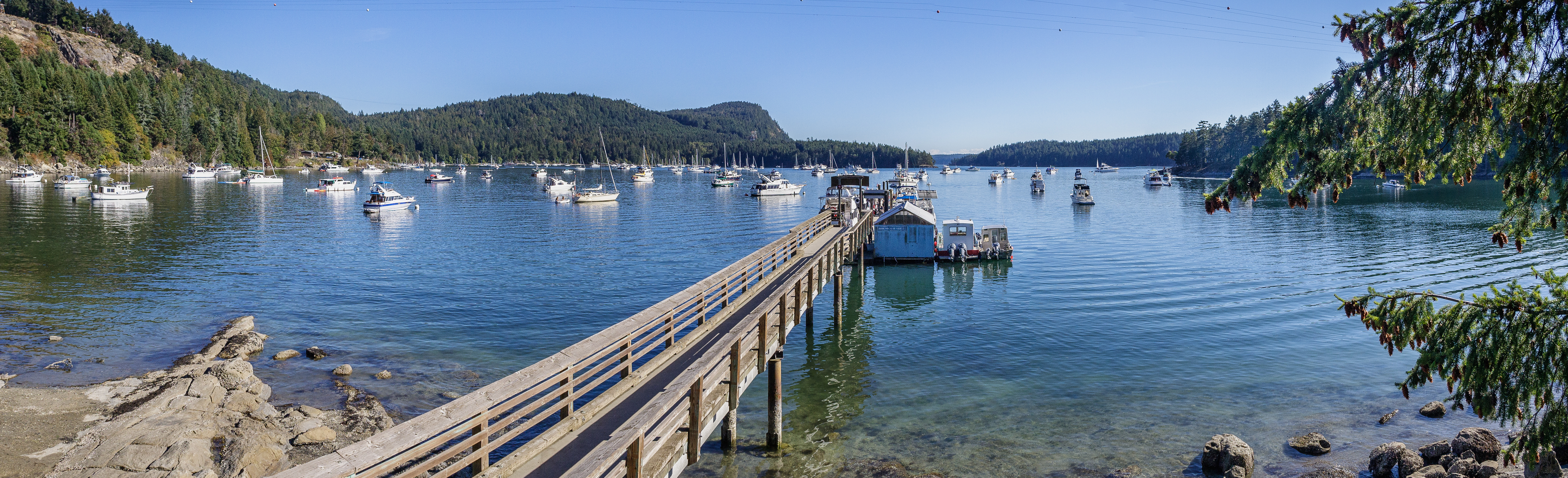 A panoramic Montague Harbour Marine Provincial Park on Galiano Island, British Columbia, during a busy Labour Day weekend, with many recreational boats on park mooring buoys and at anchor in the harbour. This photo was taken in a protected area in Canada, Wikidata item Montague Harbour Marine Provincial Park (Q6904118)